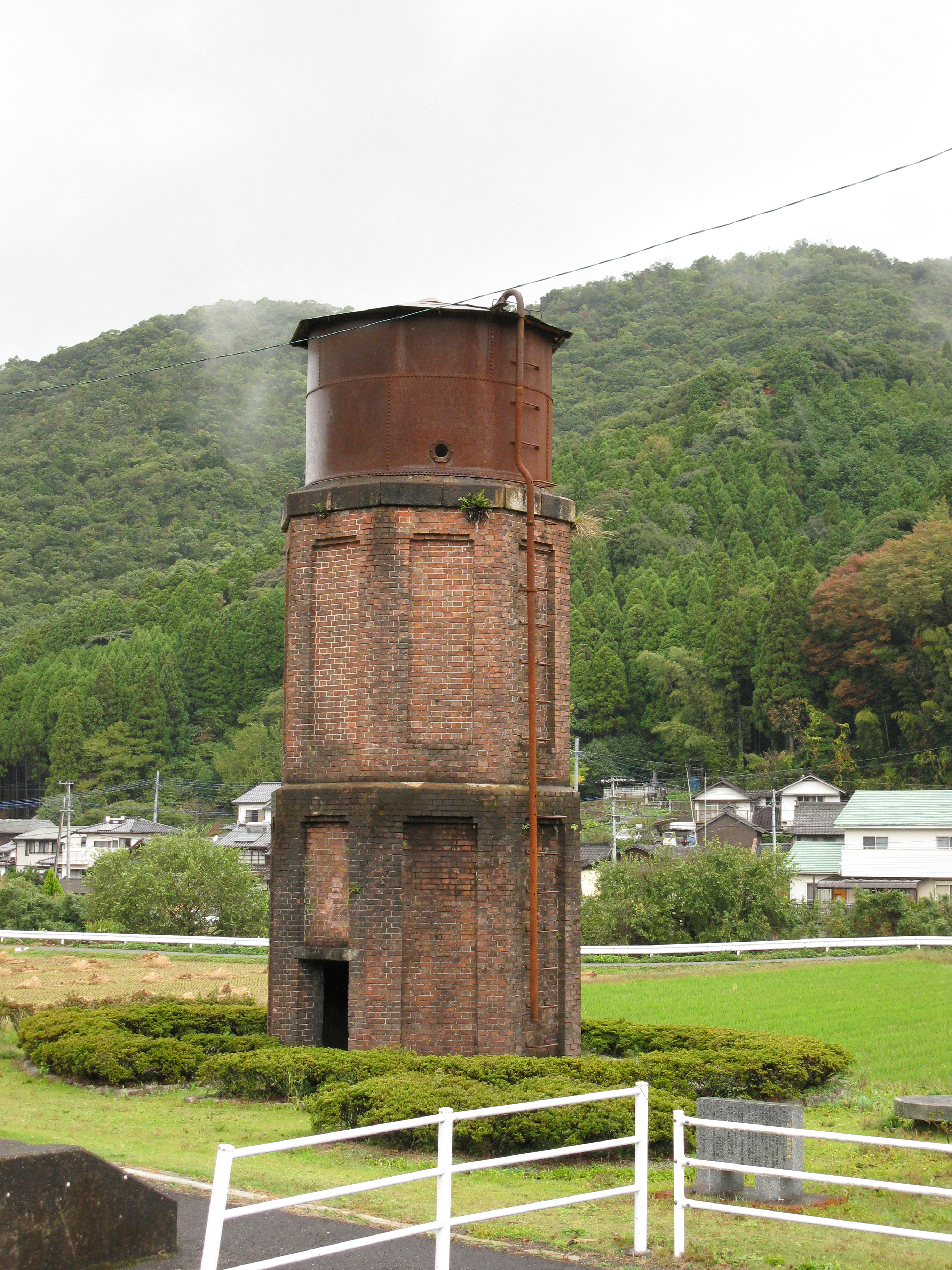 Kyūragi Station water tower (Kyushu Railway Karatsu Line)